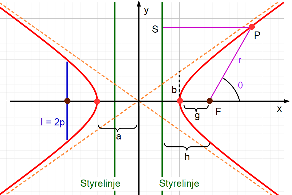 Parameters for an hyperbola. Norwegian